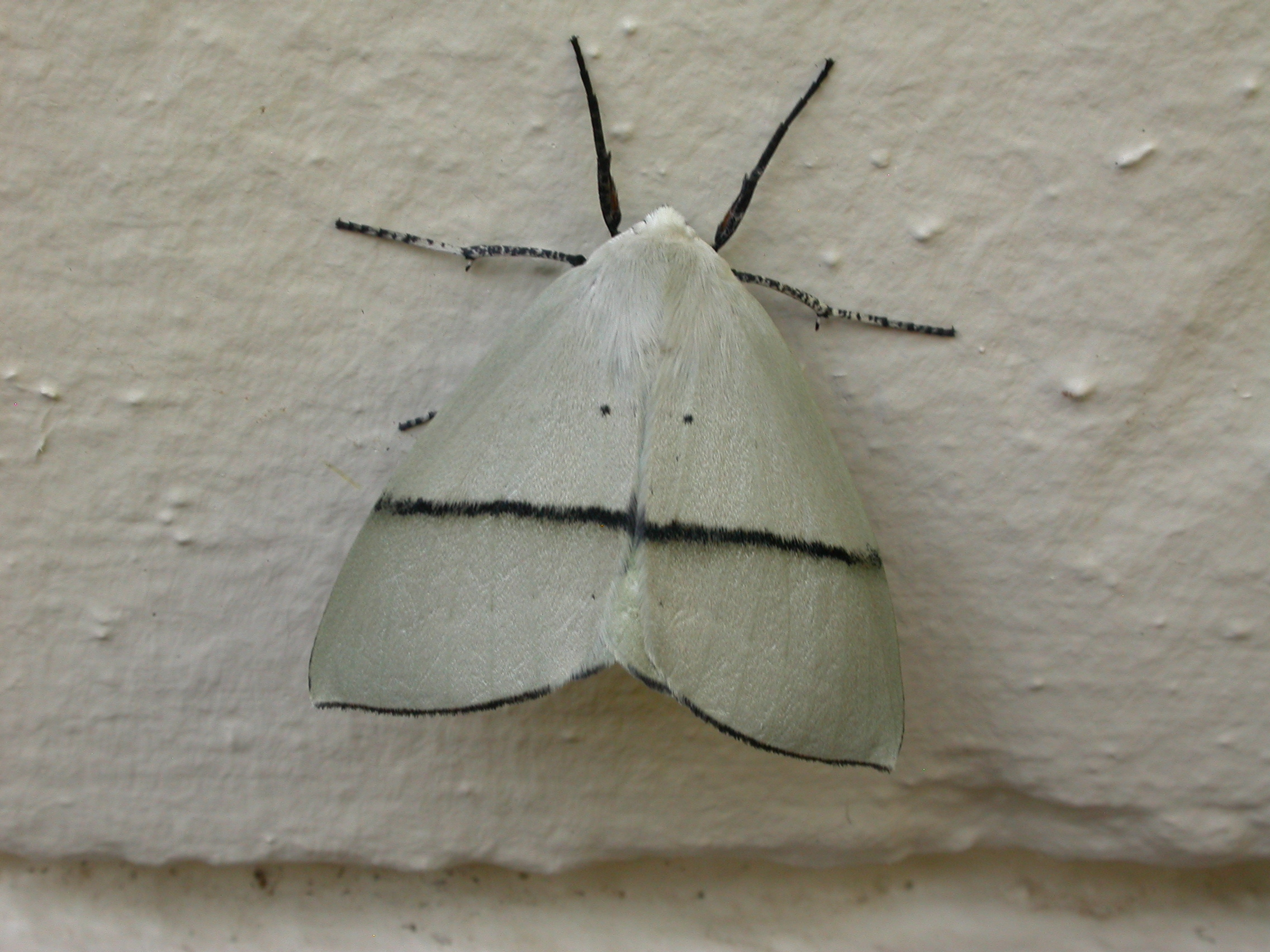 Gastrophora henricaria Guenée, 1857, to MV light, Aranda, ACT, 29/30 January 2011